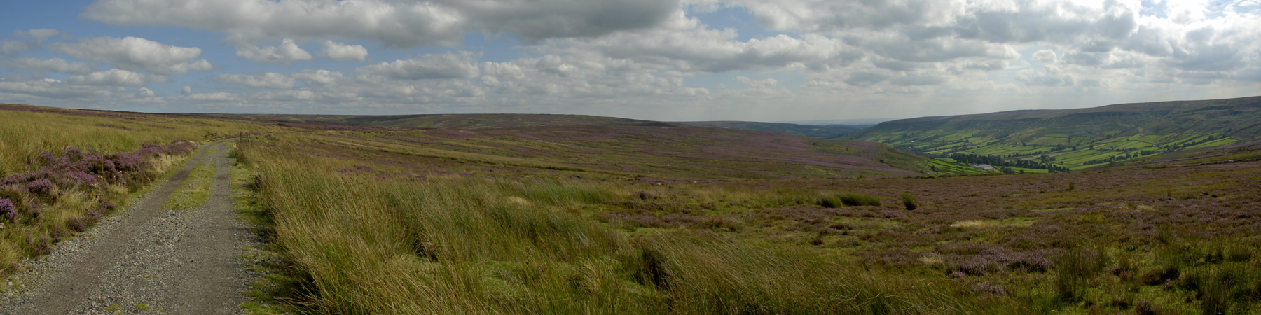 The trackbed of the Rosedale railway leads away on the left and Farndale is the green valley on the right. This view is looking south